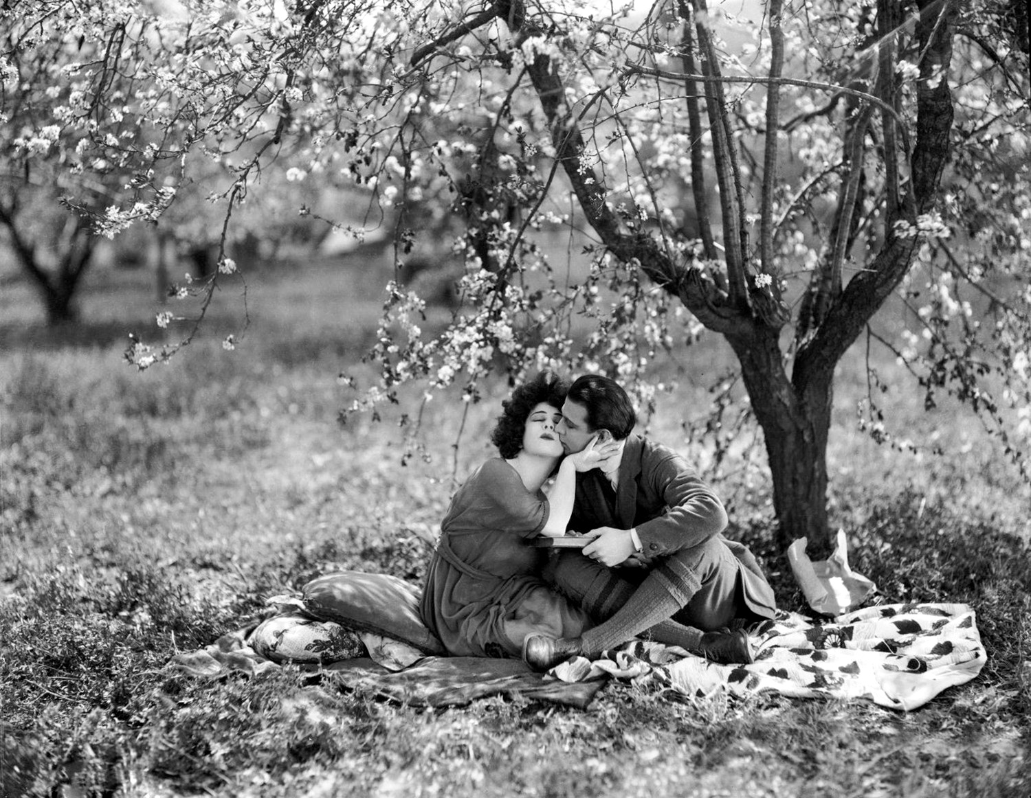 Alla Nazimova and Rudolph Valentino in a photo from the 1921 film Camille.